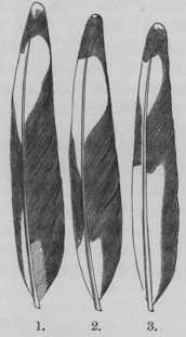 "Caption: Three outer primaries of L. novæ hollandiæ, old.". Silver Gull Chroicocephalus novaehollandiae outer primary feathers.